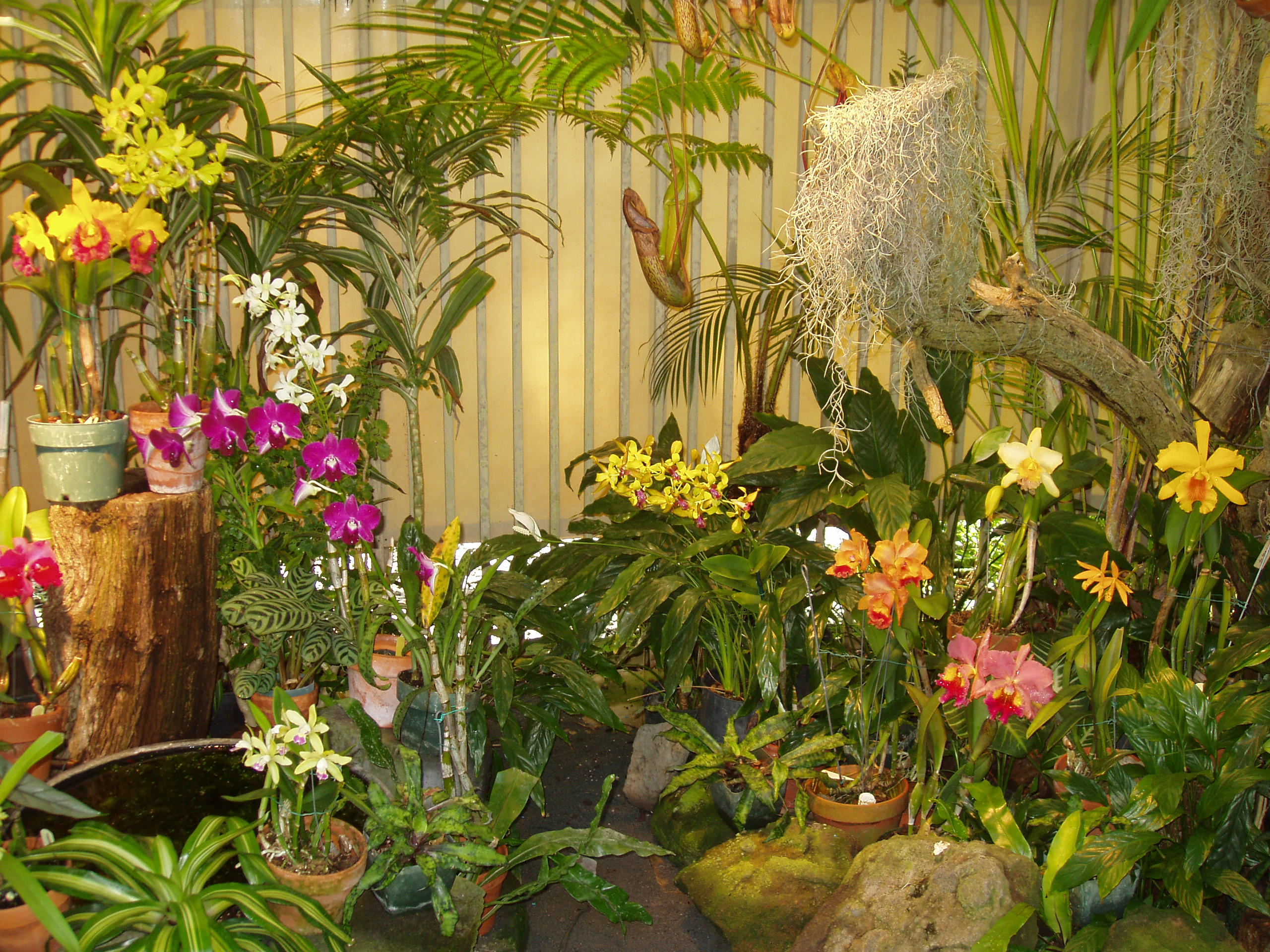 Foster Botanical Garden (orchid display) - Honolulu, Hawaii, USA.